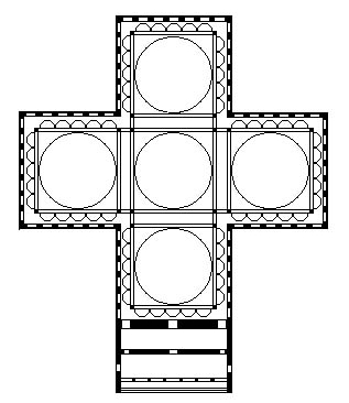 Floor plan of the former Church of the Holy Apostles in Constantinople (Mausoleum of Emperor Constantine I).